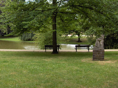 sculpture Untitled (De Zonaanbidster) (1951) by Mattheus Meesters in Groningen (city)/The Netherlands